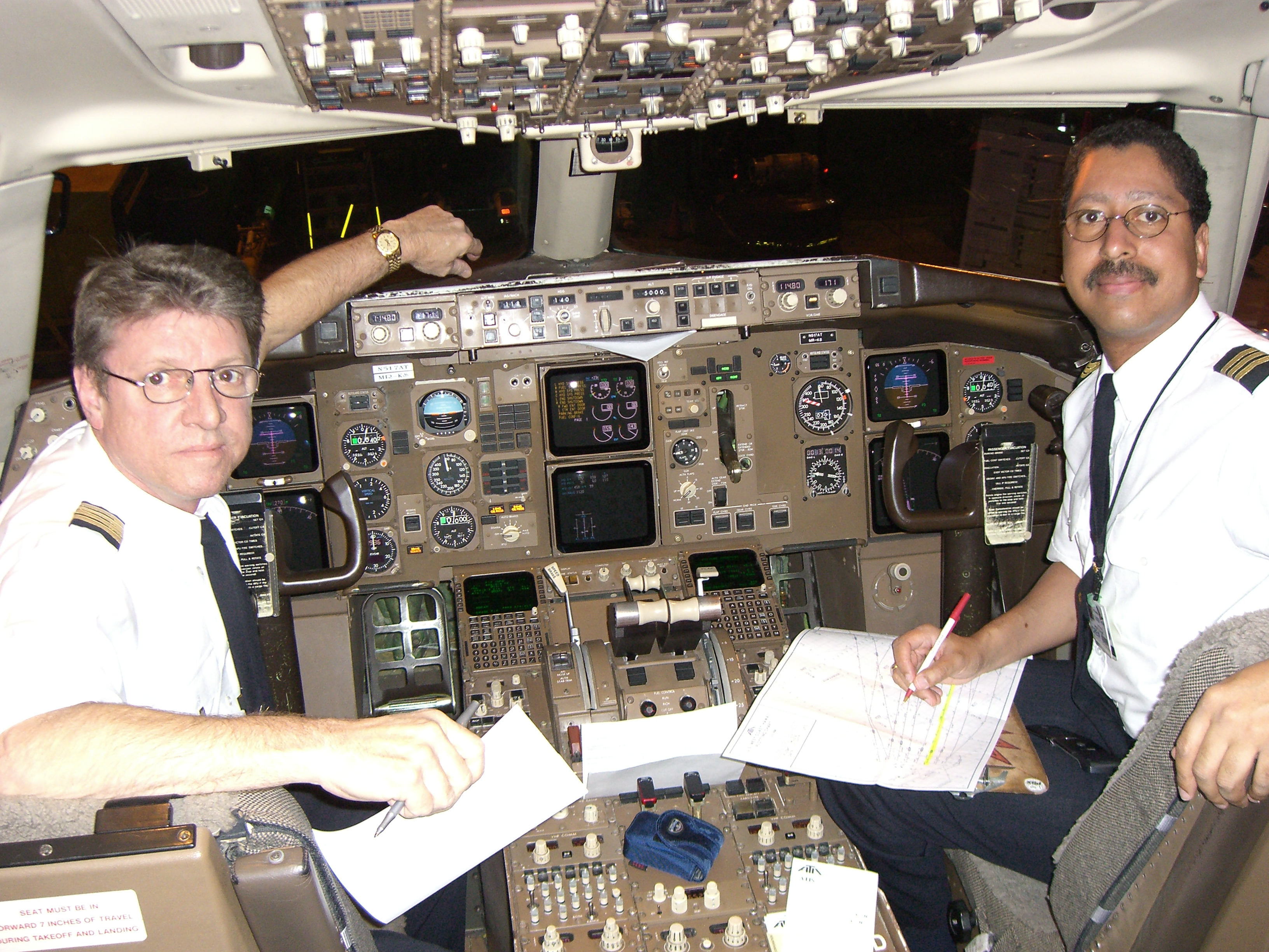 Flight crew of ATA Airlines flight 4586 (April 3, 2008) prior to conducting the company's last revenue flight.